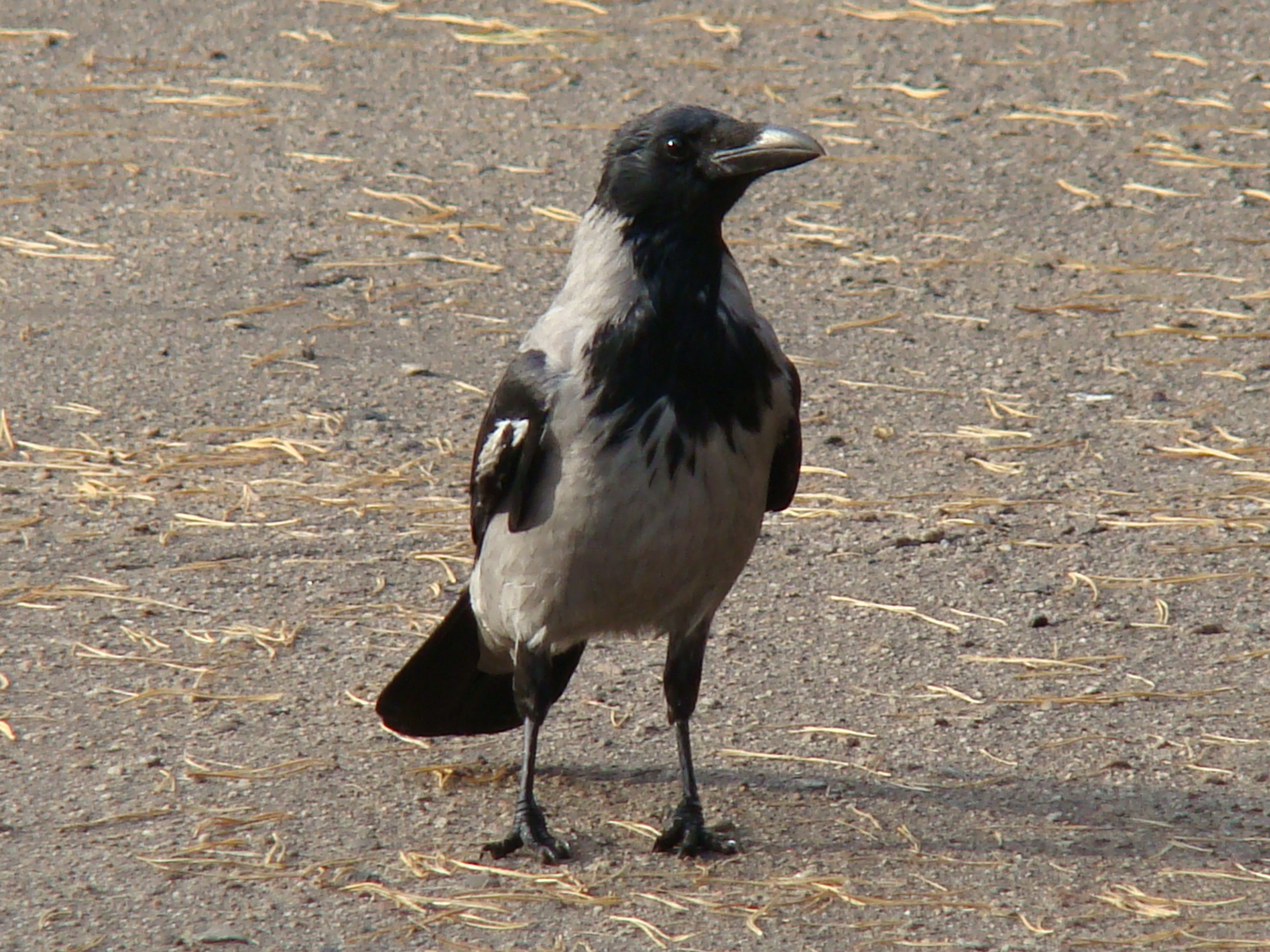 Photo of the Hooded Crow (Corvus cornix) in Vilnius Vingis park, Lithuania.